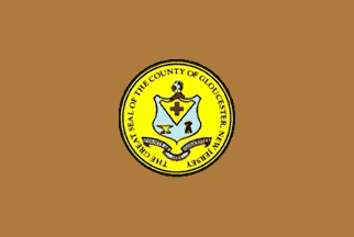 The official flag of Gloucester County, New Jersey, adopted on July 21, 1960.